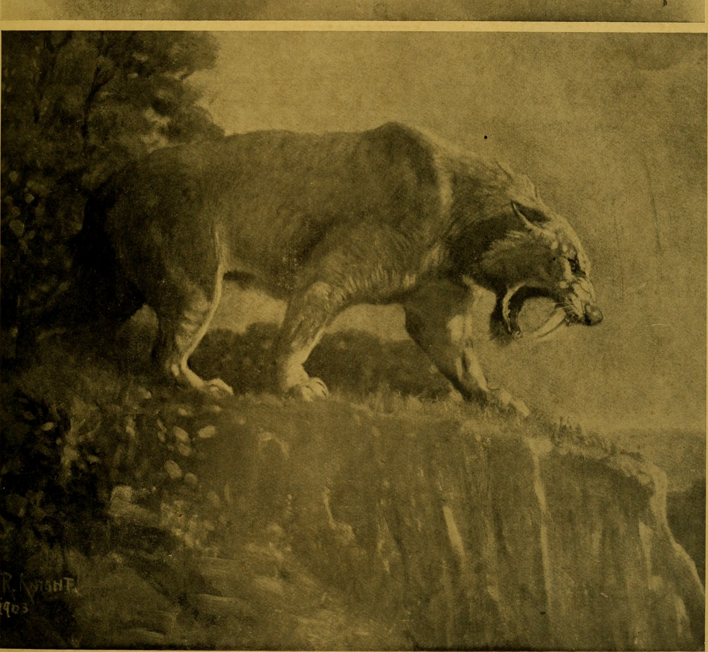 The Sabre-tooth Tiger by Charles R. Knight Title: The American Museum journal Year: c1900-(1918) (c190s) Authors: American Museum of Natural History Subjects: Natural history Publisher: New York : American Museum of Natural History Text Appearing Before Image: AMERICAN MUSEUM JOURNAL Text Appearing After Image: FREE TO MEMBERS TWENTY CENTS PER COPY